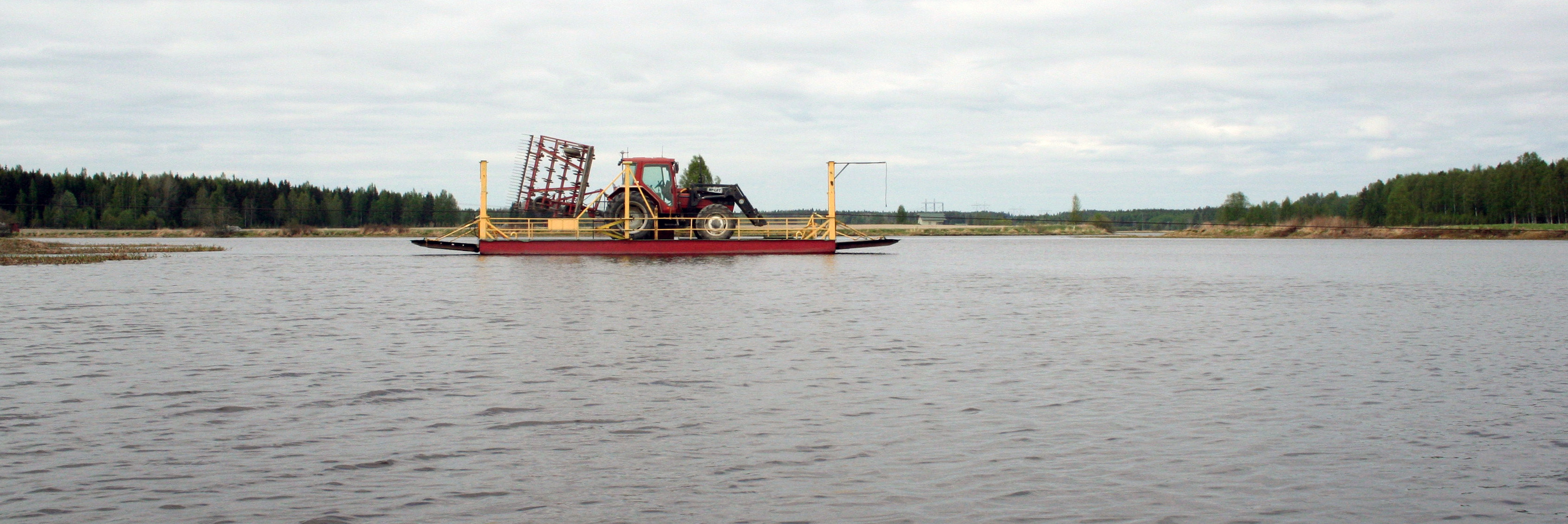 Cableferry crossing Kokemäenjoki River to island Kiettare in Kokemäki, Finland, carrying a tractor onboard.